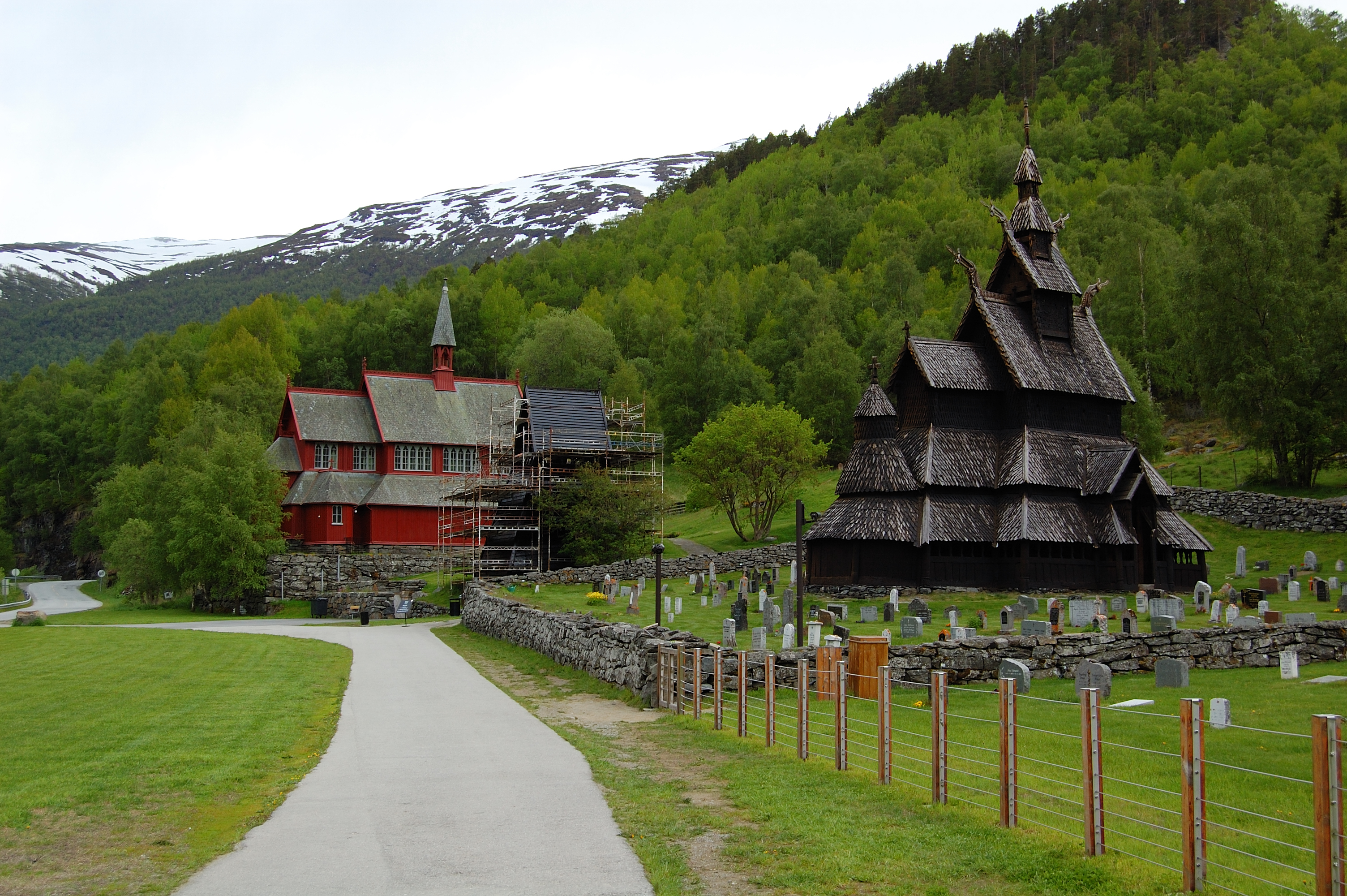 Borgund stave church and the Borgund church in Lærdal, Sogn og Fjordane country, Norway.